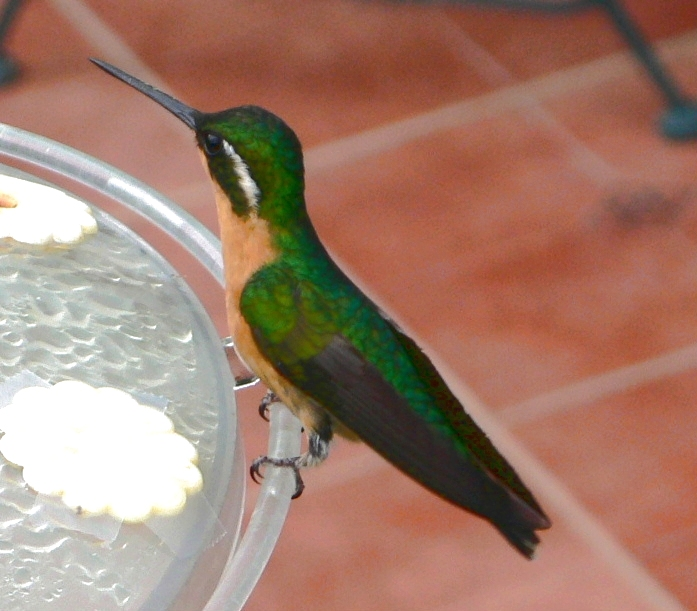 Female Gray-tailed Mountain-gem (Lampornis cinereicauda), Savegre, Costa Rica